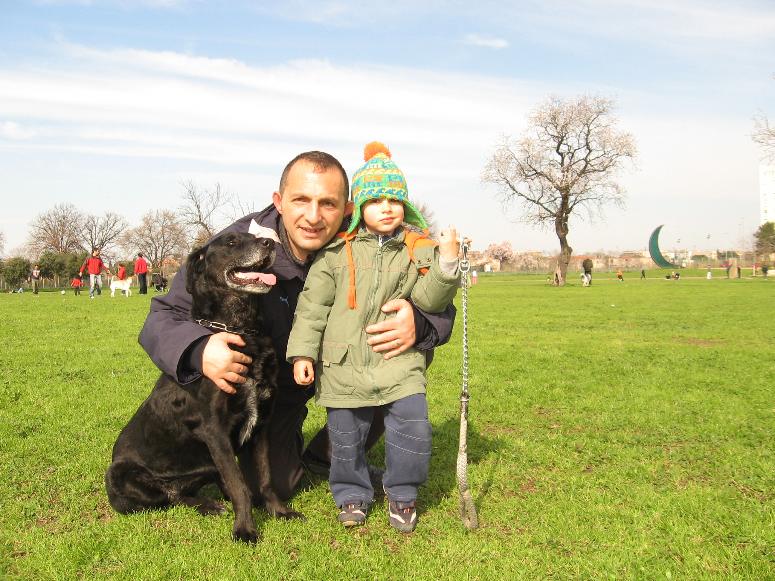 A dog, a child and a man in the open air – This snapshot was taken in “Villa De Santis”, a park in Rome. In the background are visible a almond tree in blossom and a green sculpture shaped like a crescent moon.